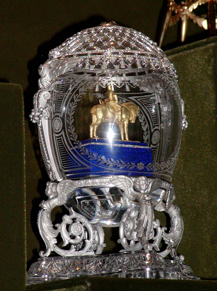 Photo of the Fabergé egg called Alexander III Equestrian from 1910 at Moscow Kremlin Armoury